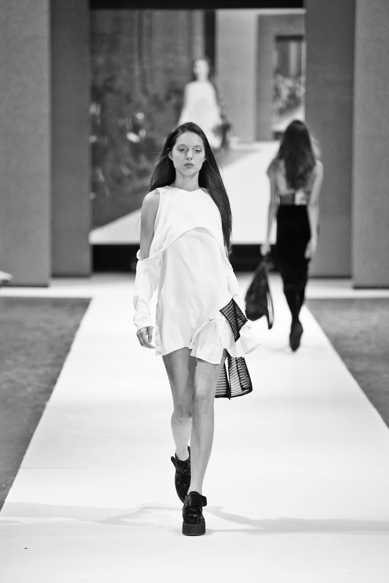 Backstage, 1st row, and catwalk in photos